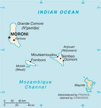 updated map of Comoros from the CIA World Factbook - 14 May 2009 edition